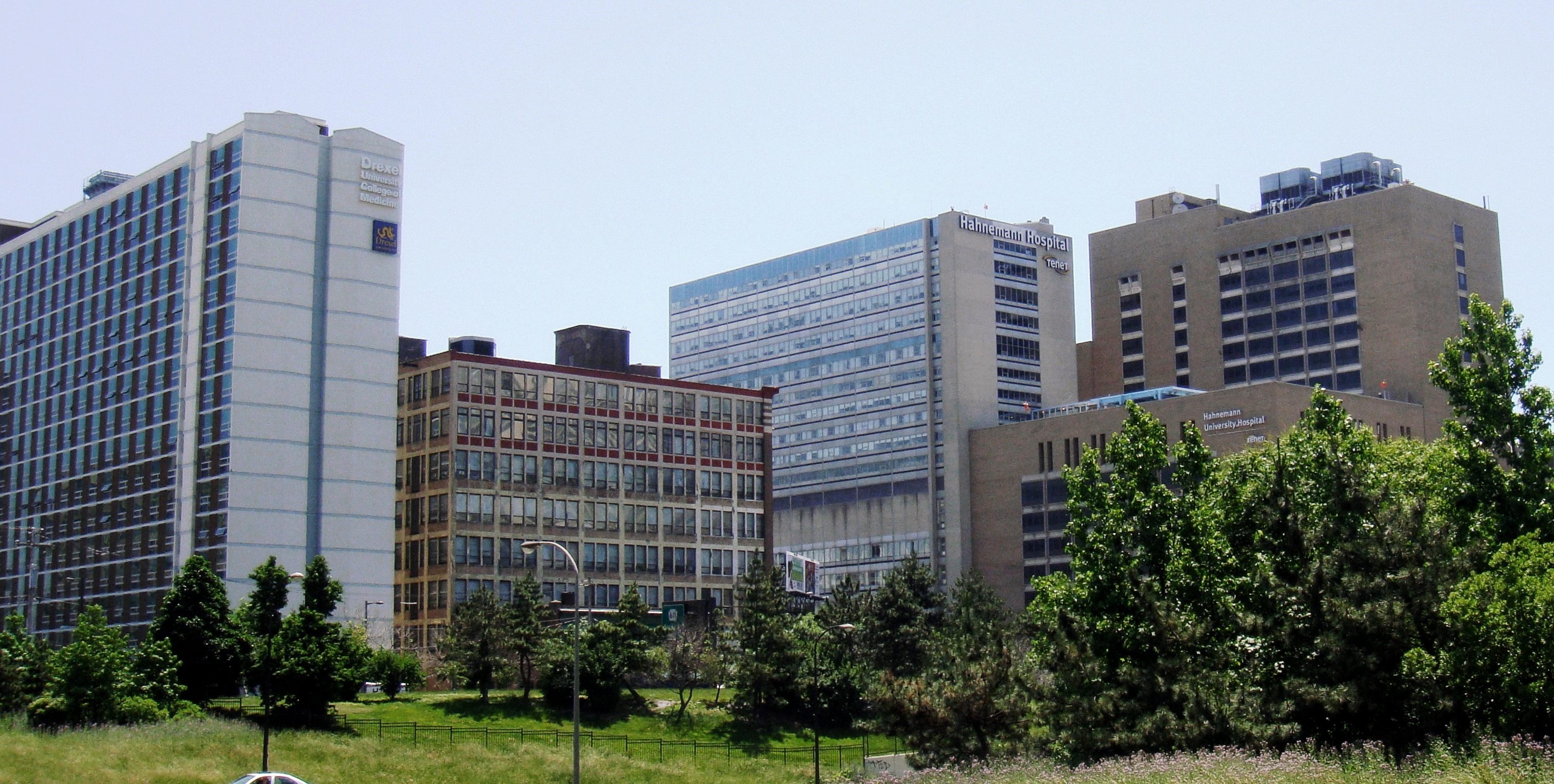 The Center City Campus of Hahnemann Hospital. On the far left are the apartment building. On the far right is the New College Building, the site of classrooms and offices. In the middle are the North and South towers where the patients are housed.